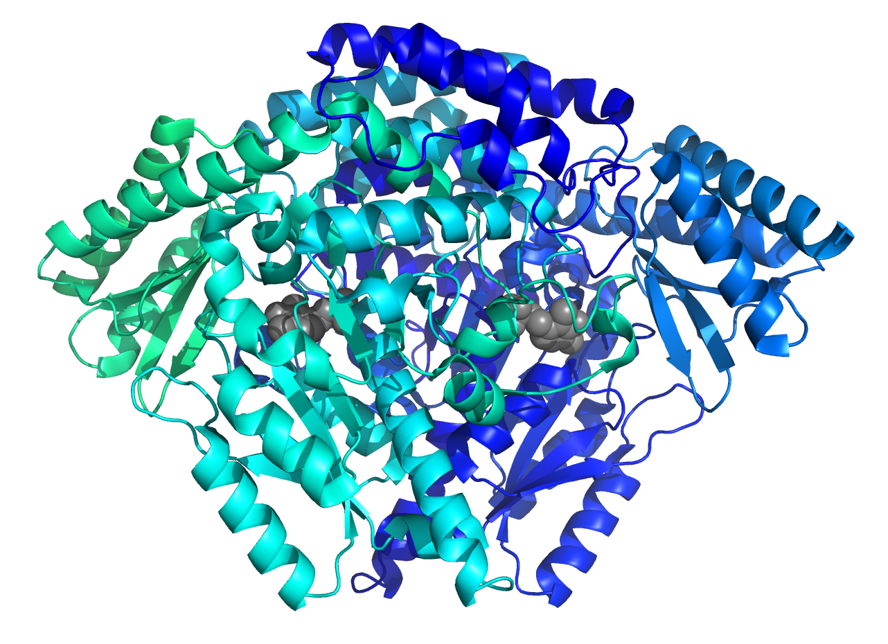 3d Rendering of histidine Decarboxylase